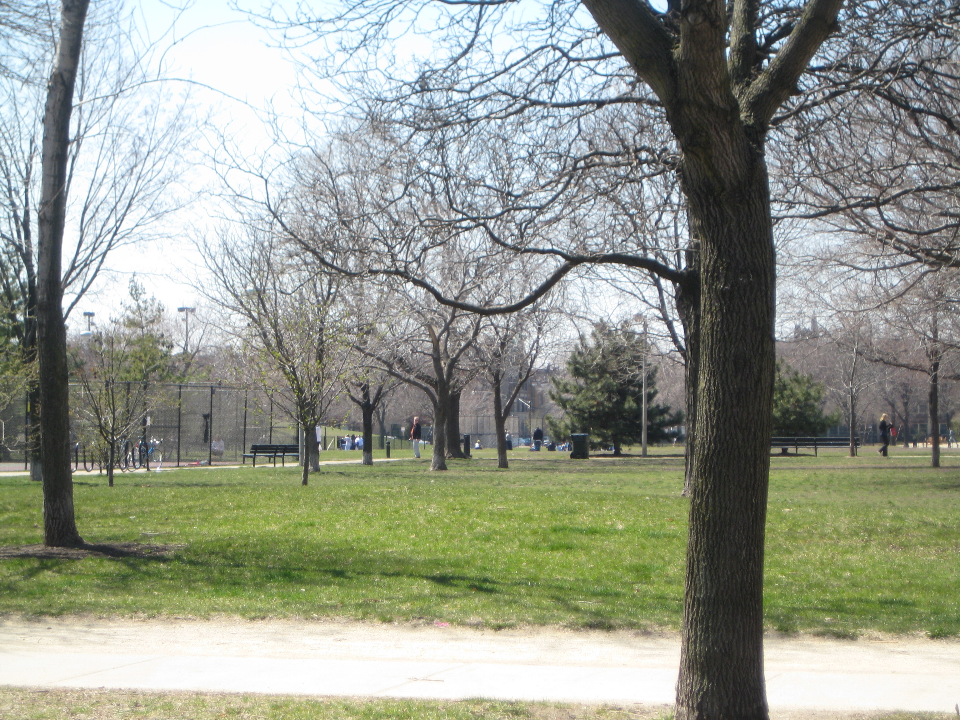 A picture of Oz Park in Chicago Illinois during early spring.